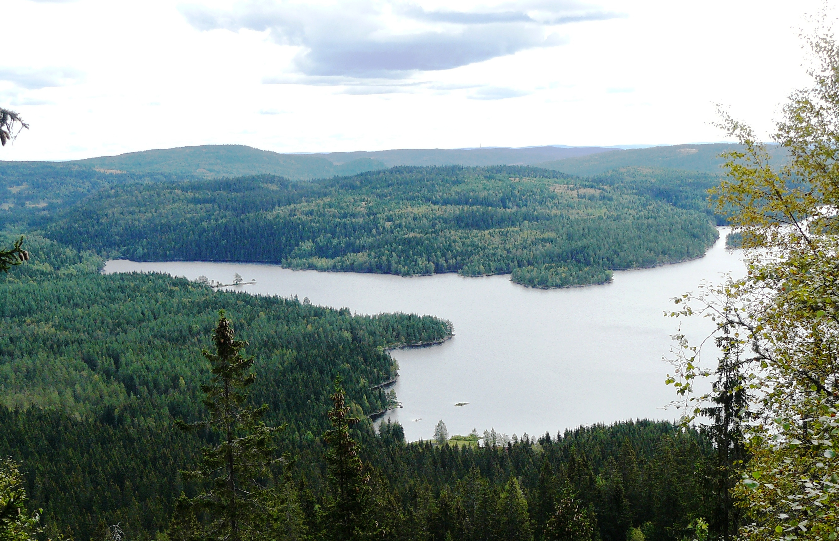 Bjørnsjøen in Nordmarka, Oslo, seen from Kikut.